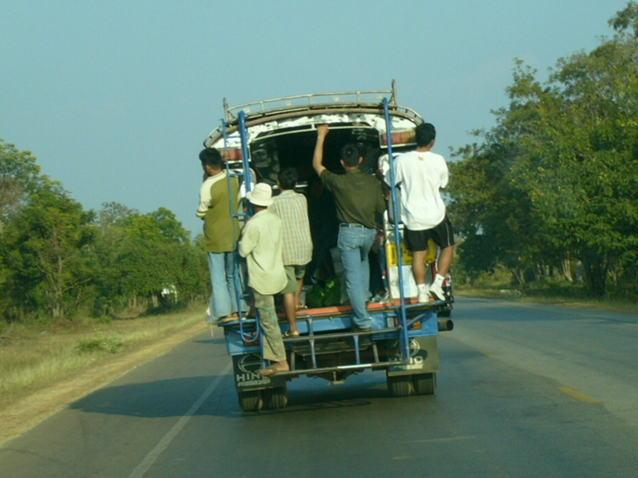 Not rare to see: A crowded Songthaew (Thailand).